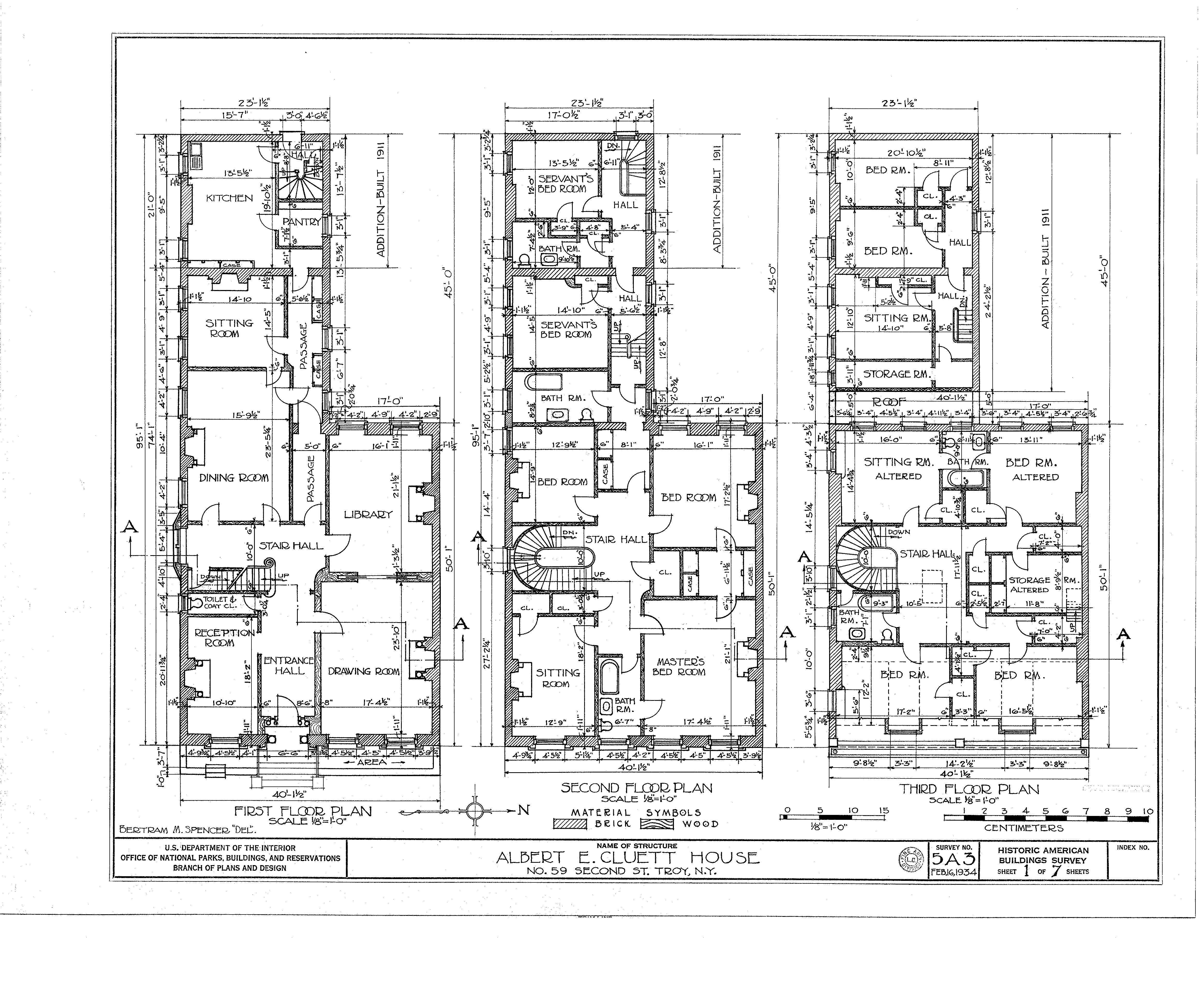 Floor Plan of Hart Cluett Mansion, Troy New York